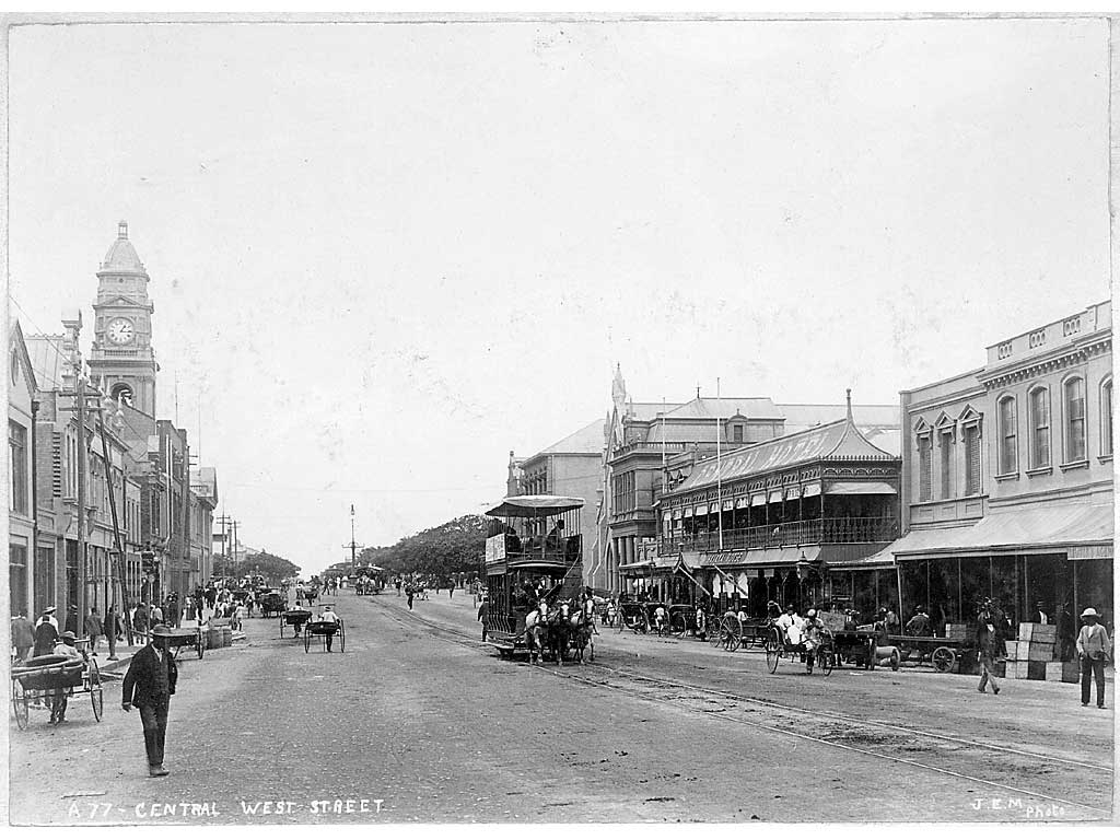 Original caption includes the following: "This ... picture of West Street [Durban] ... clearly shows horse-drawn trams and rickshas in use. The picture is marked J.E.M. Photo and is undated but was probably taken between 1893, when rickshas were introduced, and the arrival of electric trams in 1902. An interesting feature of the picture is the clock tower of what was then the Town Hall [now the Central Post Office] and the bushy area across the road from it. The area was the market square and is where the City Hall now stands." In 2009, West Street was renamed "Dr Pixley Kaseme Street".